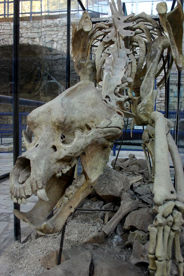 Cave Bear ursus spelaeus – skeleton in Bear Cave in Kletno (Lower Silesia, Poland)